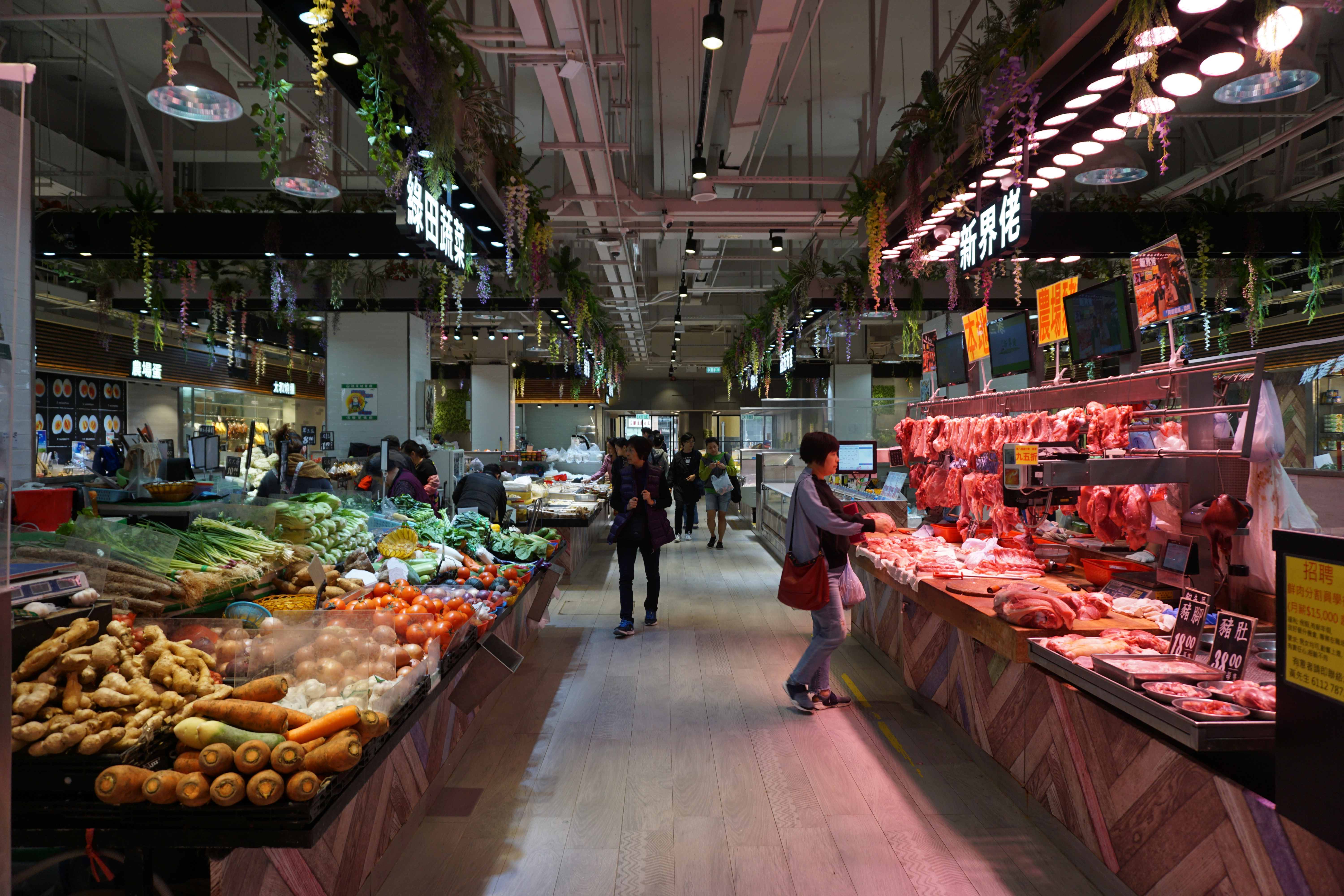 Tseung Kwan O Market in Po Lam, Hong Kong.